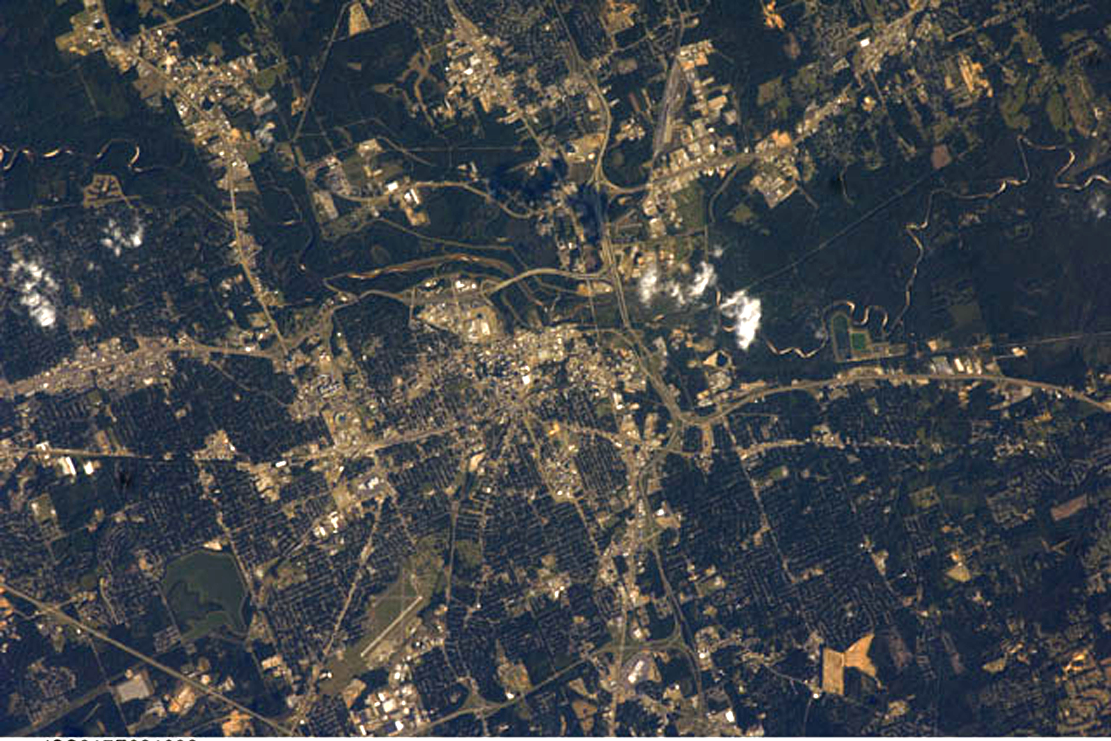 Astronaut Photography of Jackson Mississippi taken from the International Space Station (ISS). North is to the bottom left of the image; the highway crossing the bottom left of the image is I-220. Its interchange with US 49/Medgar Evers Blvd is just visible as the highway is about to run off the bottom of the image.